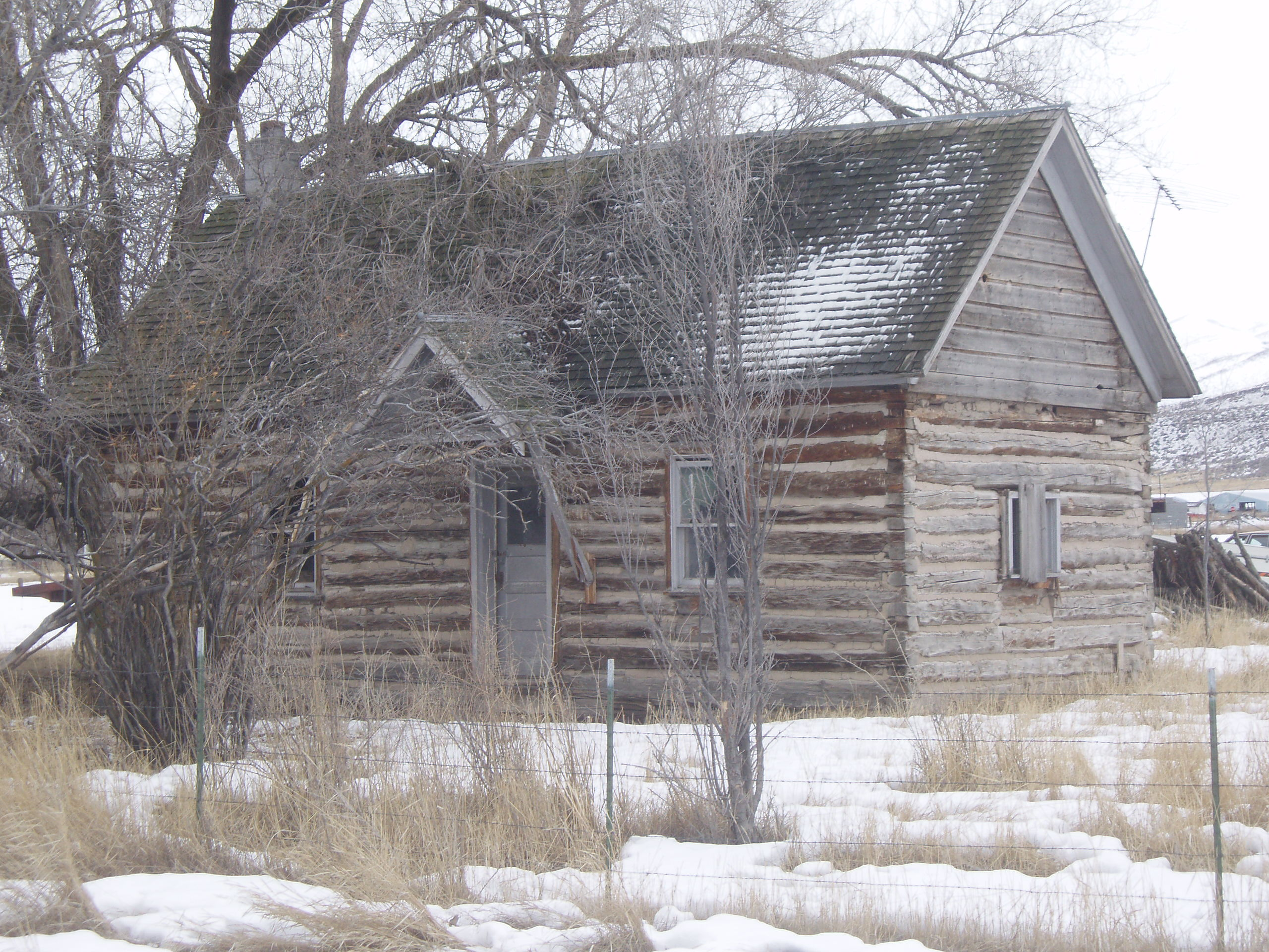 A log cabin in Samaria Historic District, comprising the historical center of the community of Samaria, Idaho, United States.